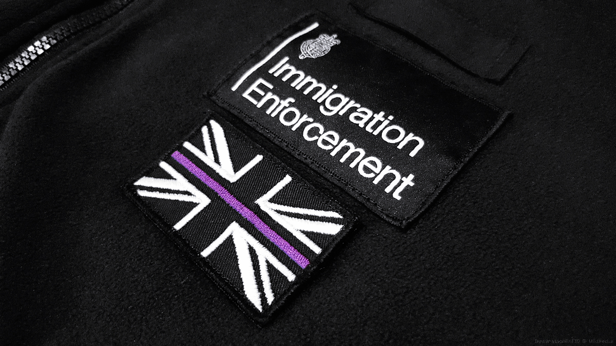 A Thin Purple Line (UK) patch as seen on an IE fleece.